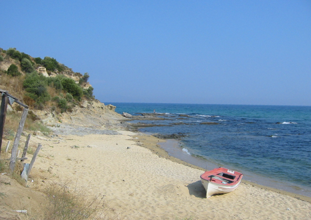 Beach in the municipality of Elsftheres, Kavala, Greece